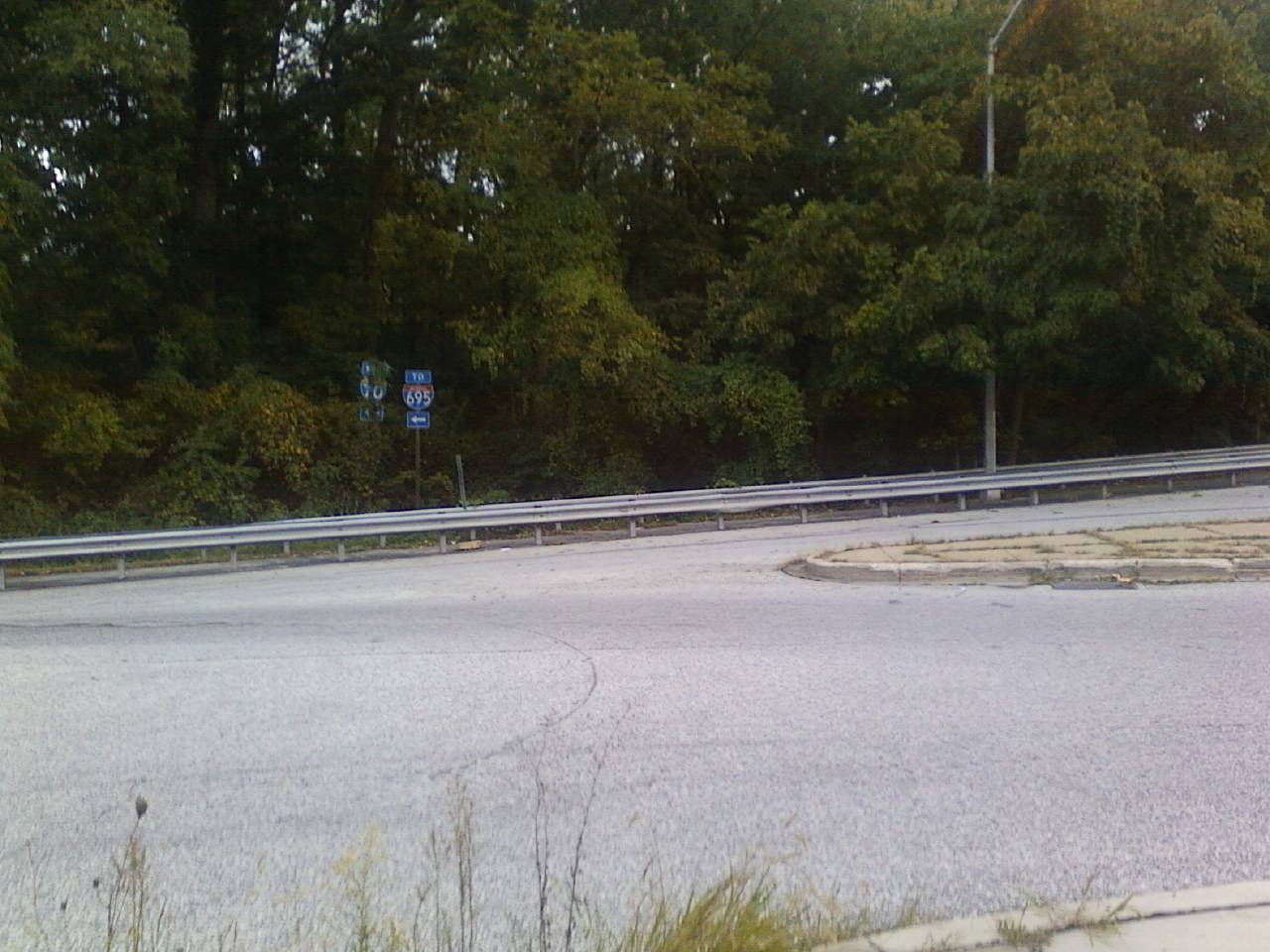 Eastern terminus of Interstate 70 in Maryland and Park and Ride near Maryland Route 122